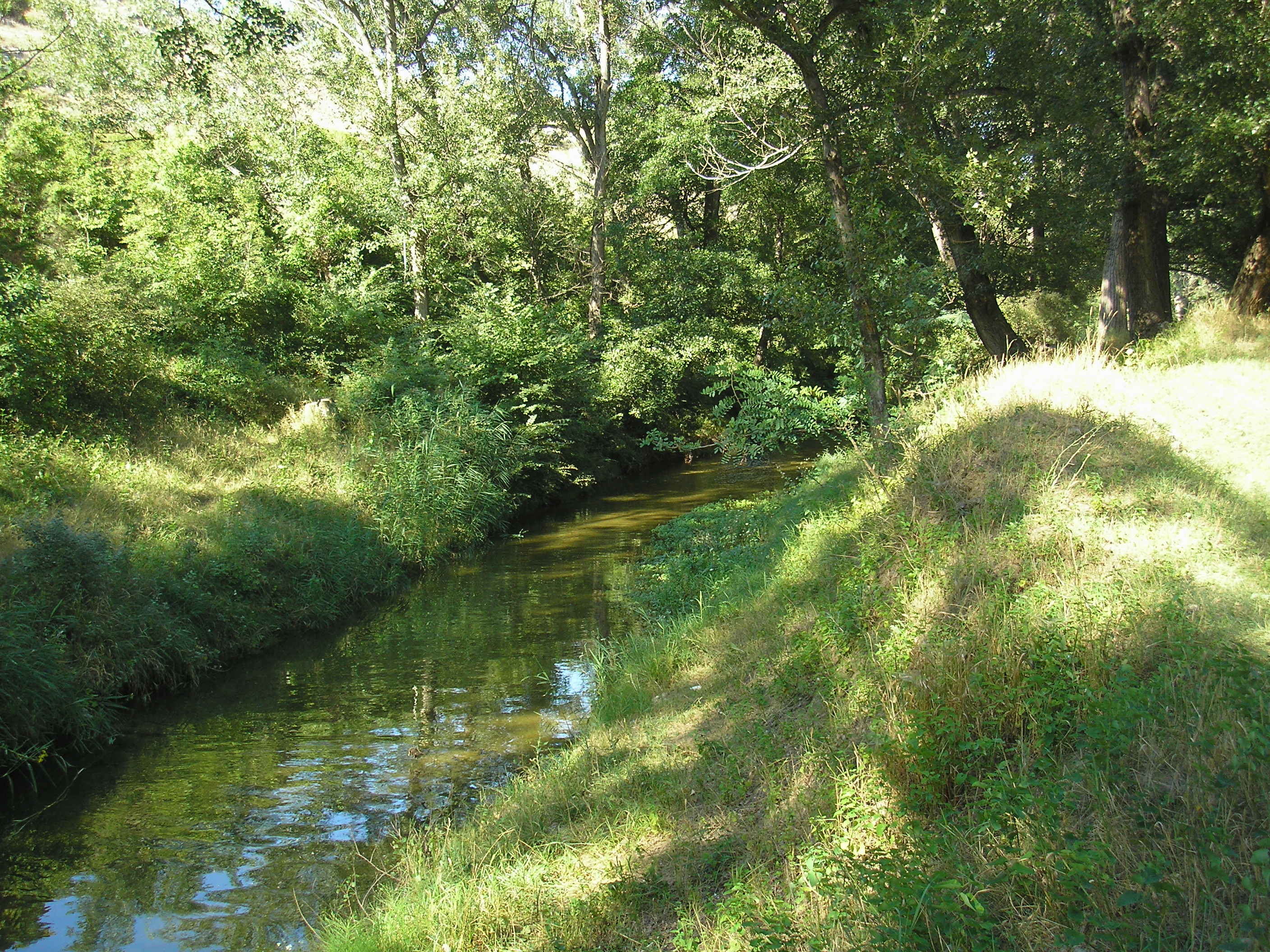 River Alma near the village Bryanskoe